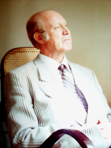 A picture of Dr. Mohammed Imady